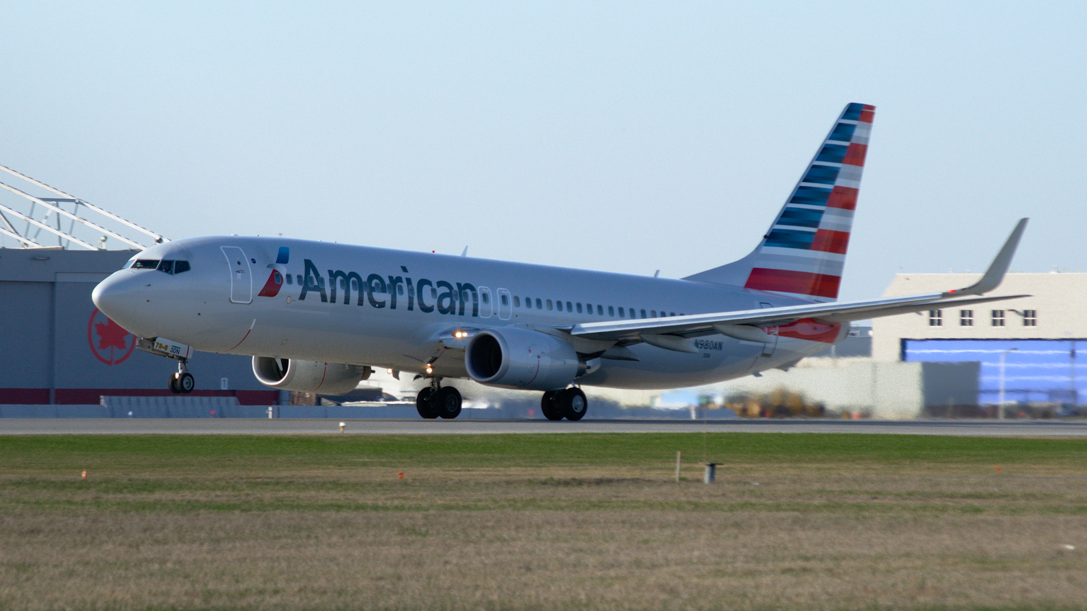 American Airlines Boeing 737-800 with new color take-off from Montréal Airport